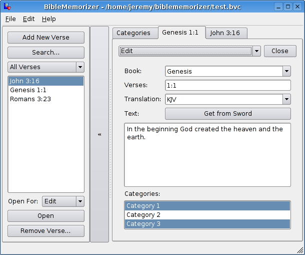 The Programm "BibleMemorizer "